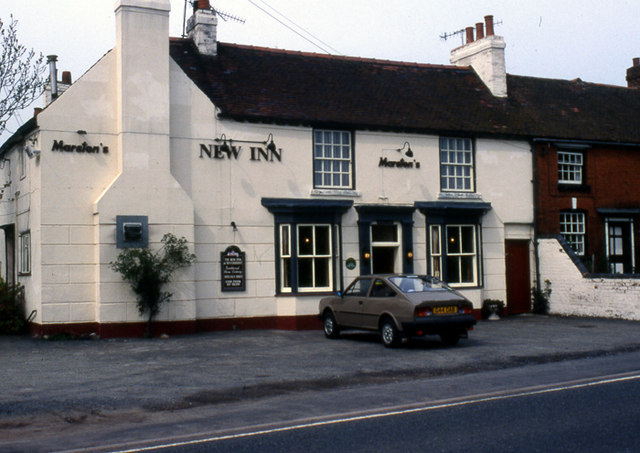 The New Inn - in happier days